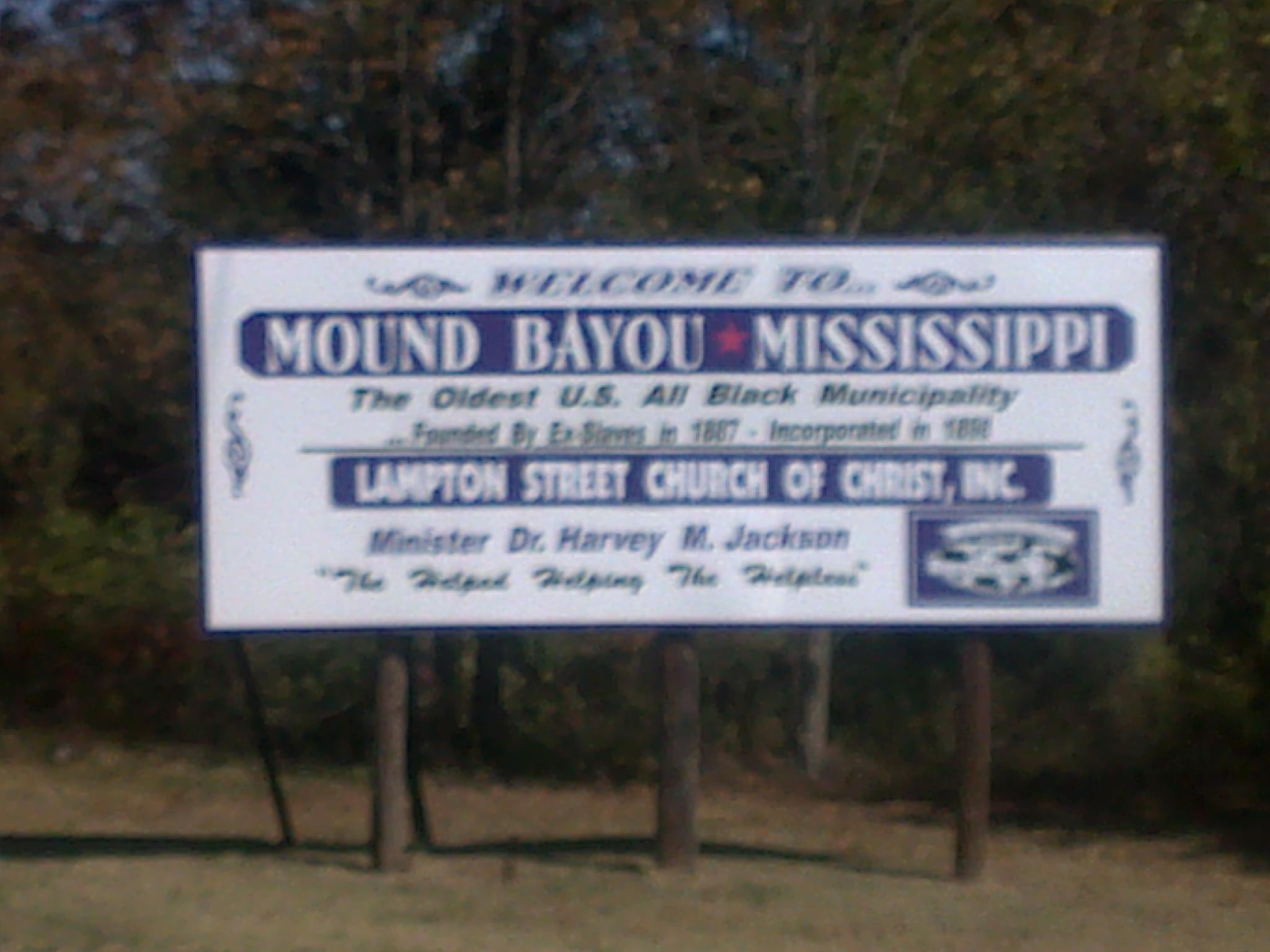 Mound Bayou info sign along Highway 161 (Old Highway 61)